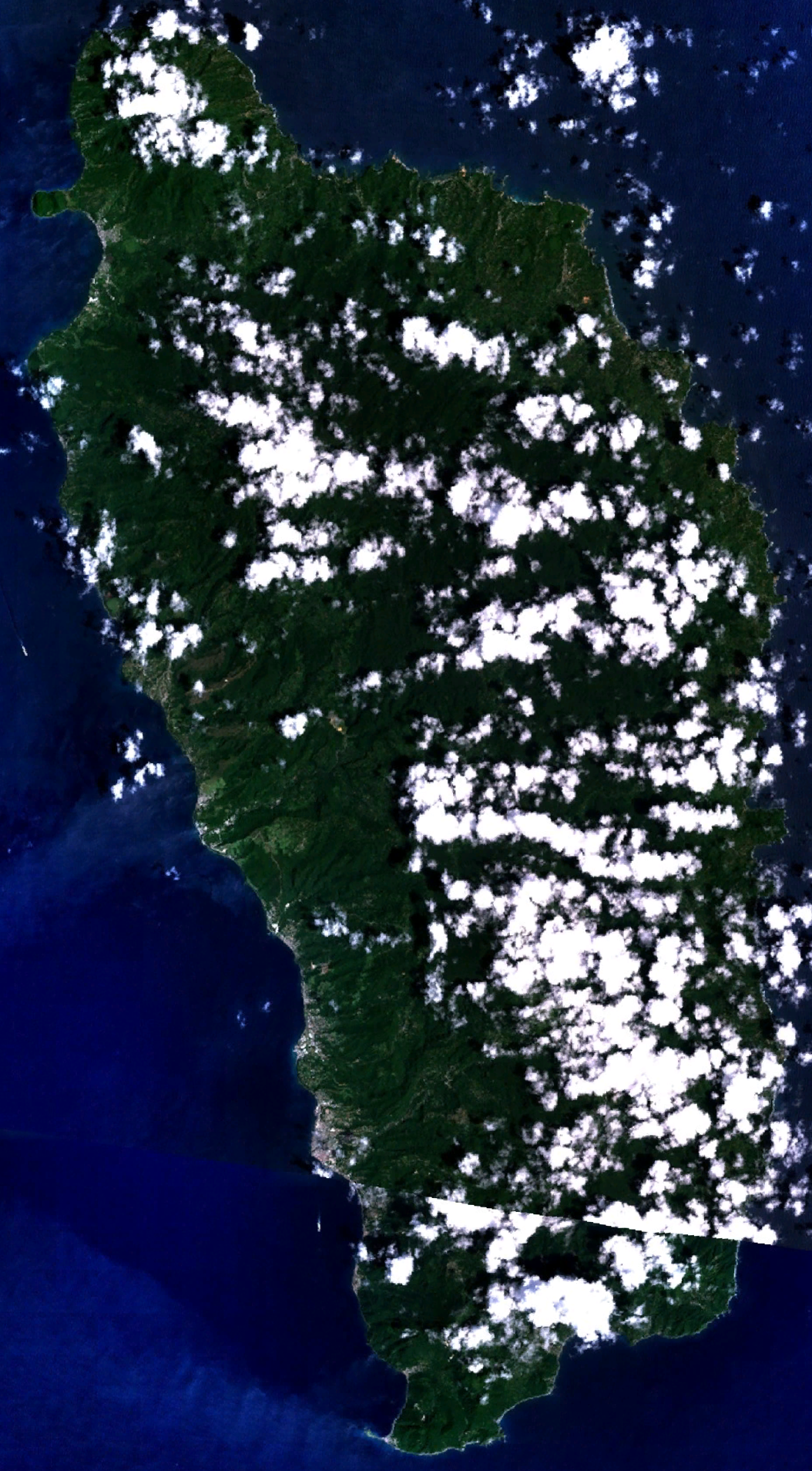 Visible colour satellite image of Dominica. NLT Landsat7 image.